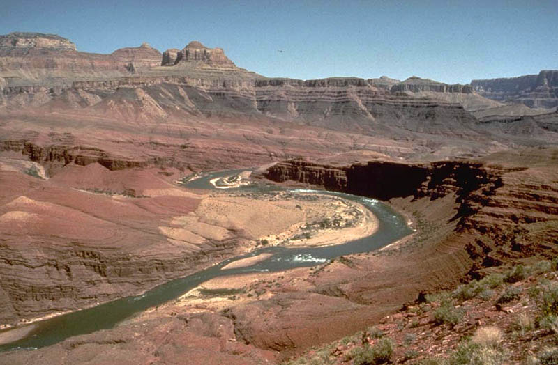 (See file name). (Photo: "Unkar Creek Delta, on Colorado River, near the start of the basement rocks in Grand Canyon." (the start is just upstream) The horizontal cliff at top of the 15 degree, angular unconformity, is the Tapeats Sandstone. 4 Horizontally laid (deposited) layers are shown in this photo below the Tapeats Sandstone. The top layer is at photo top-right. The first 2 layers are in Grand Canyon Supergroup-(of 4 units). (#3 of 4)-Chuar Group, (#2 of 4)-Nankoweap Formation, (3 and 4, are layers No. 5/6 of the Unkar Group)-(unit #1 of 4 in the Supergroup(Unkar Group), (unit 6 of 6)-Cardenas Lava, (unit 5 of 6)-Dox Formation. The 4-layers are conformablly laid, no timegaps. The contact above the Sixty Mile Formation (unit 4 of 4)/Chuar Group is a fault (geology) with Vishnu Schist, mostly found later downstream, (another fault), in the Granite Gorge-(but with the bottom units of the series, (the lowest of Unkar Group, unit 1 of 6)). Note: Basalt Creek delta, is in the Dox Formation, the cliffs directly up creekside, go into the overlying Cardenas Lava, maybe 40-80 ft(?) thick, at creekside, but the Cardenas Lava in places is up to 800 ft thick.